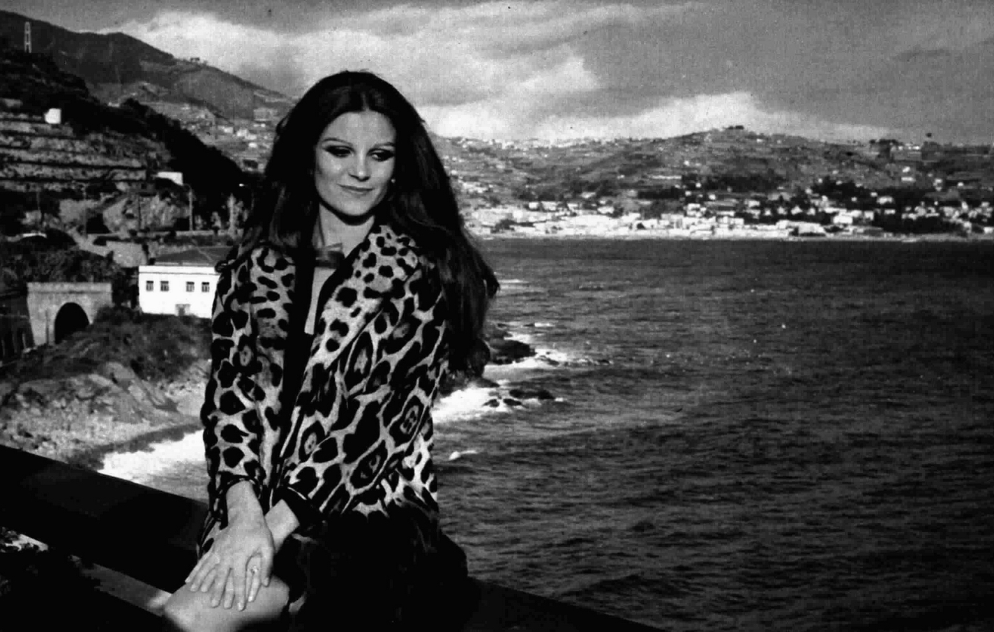 Italian singer Milva in 1970